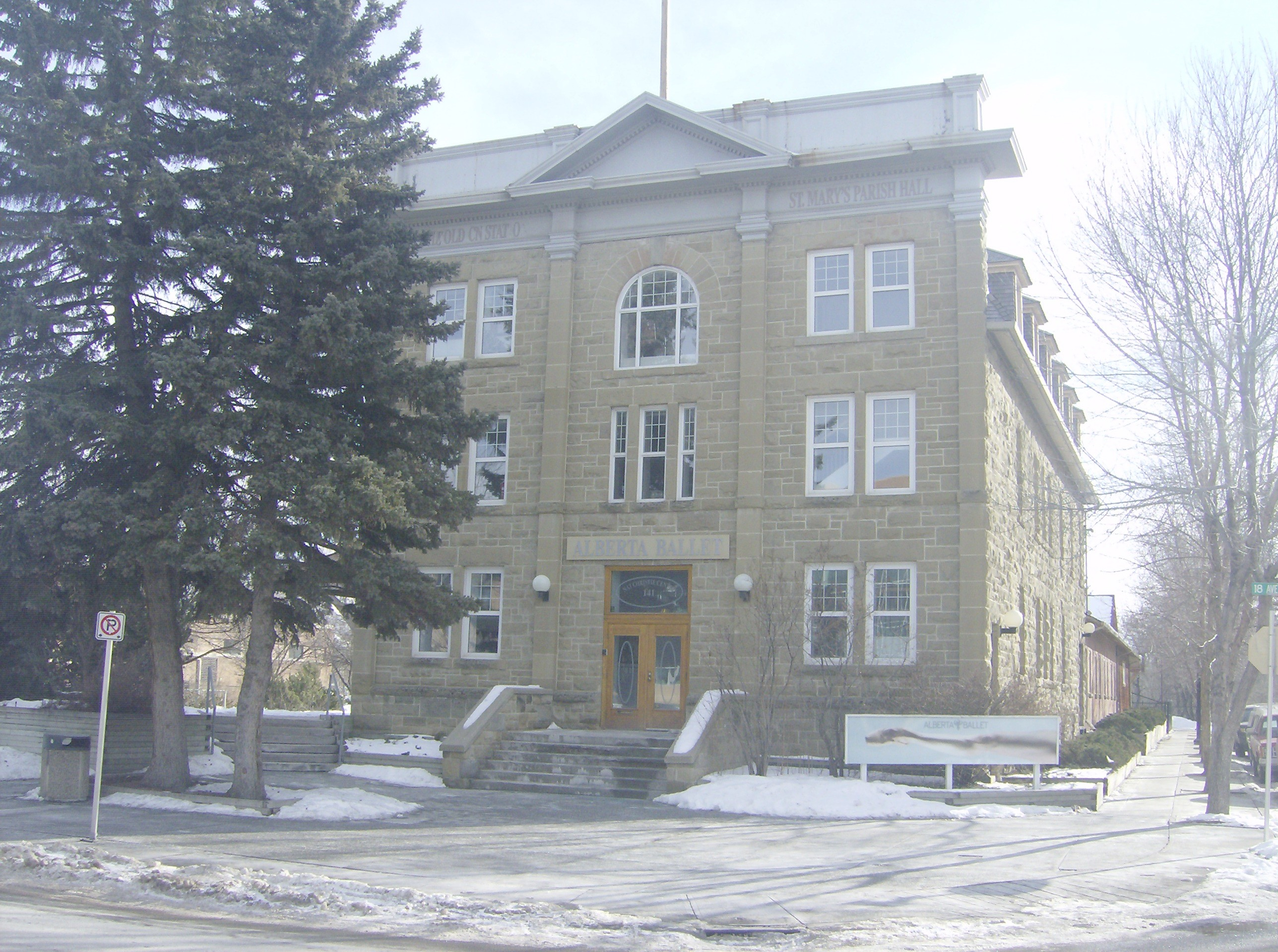 The Nat Christie Centre of the Alberta Ballet Company in Calgary, Alberta, Canada. This image was "lightened" from teh original.